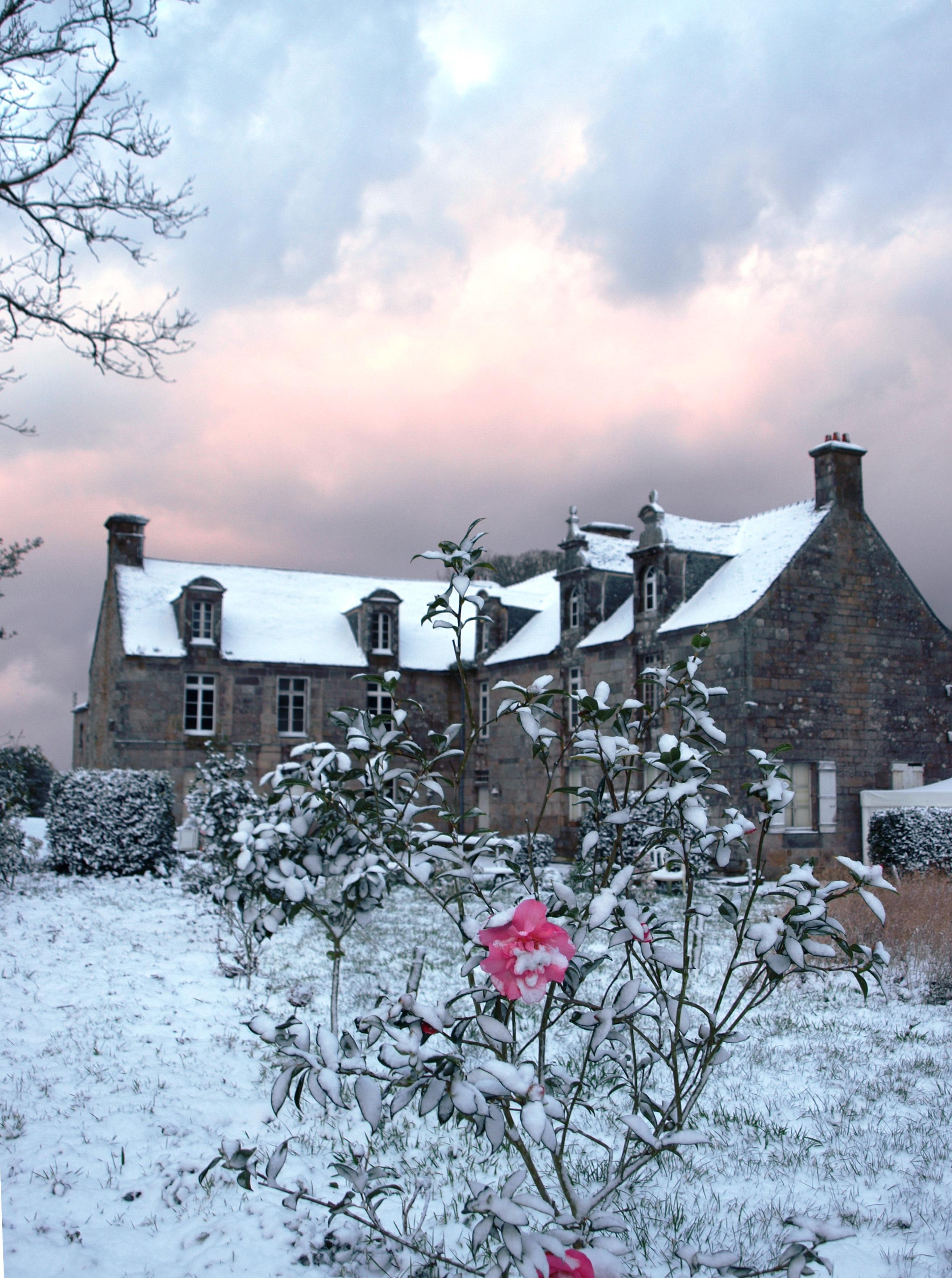 Manor of Kermenguy